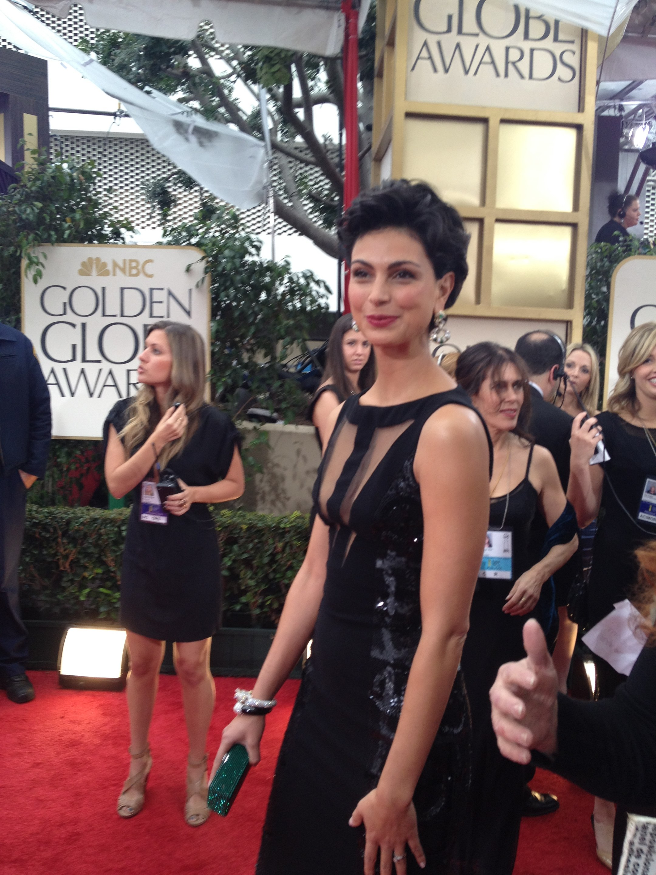 69th Annual Golden Globes Awards.